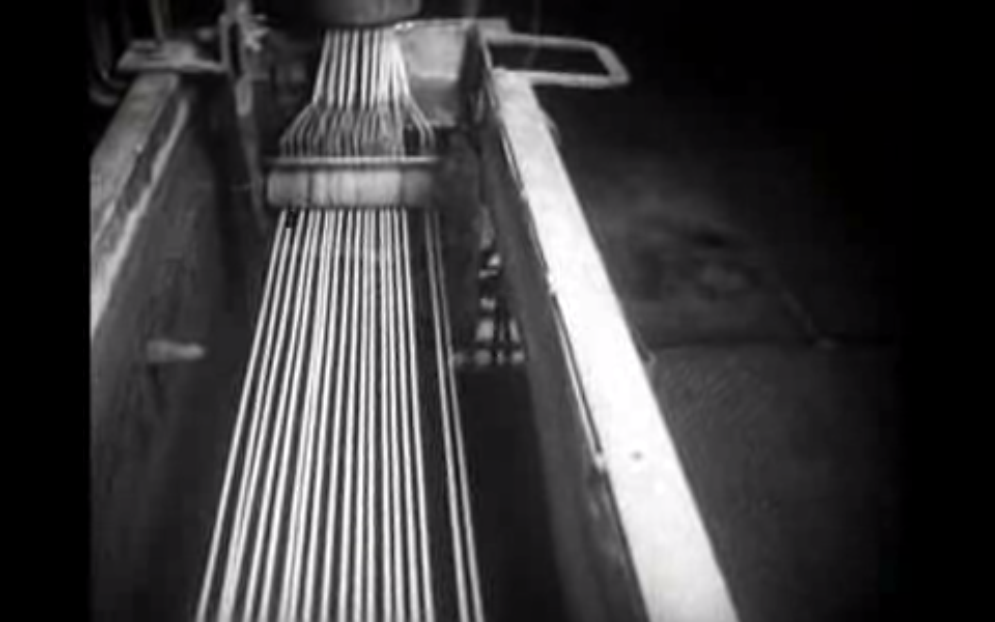 National Plastic Products Company in Odenton, MD, extruding Saran plastic into plastic thread